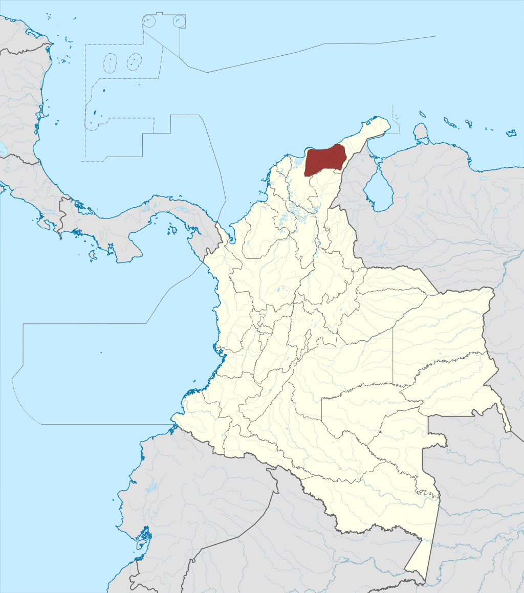 Historical territory of the tairona people